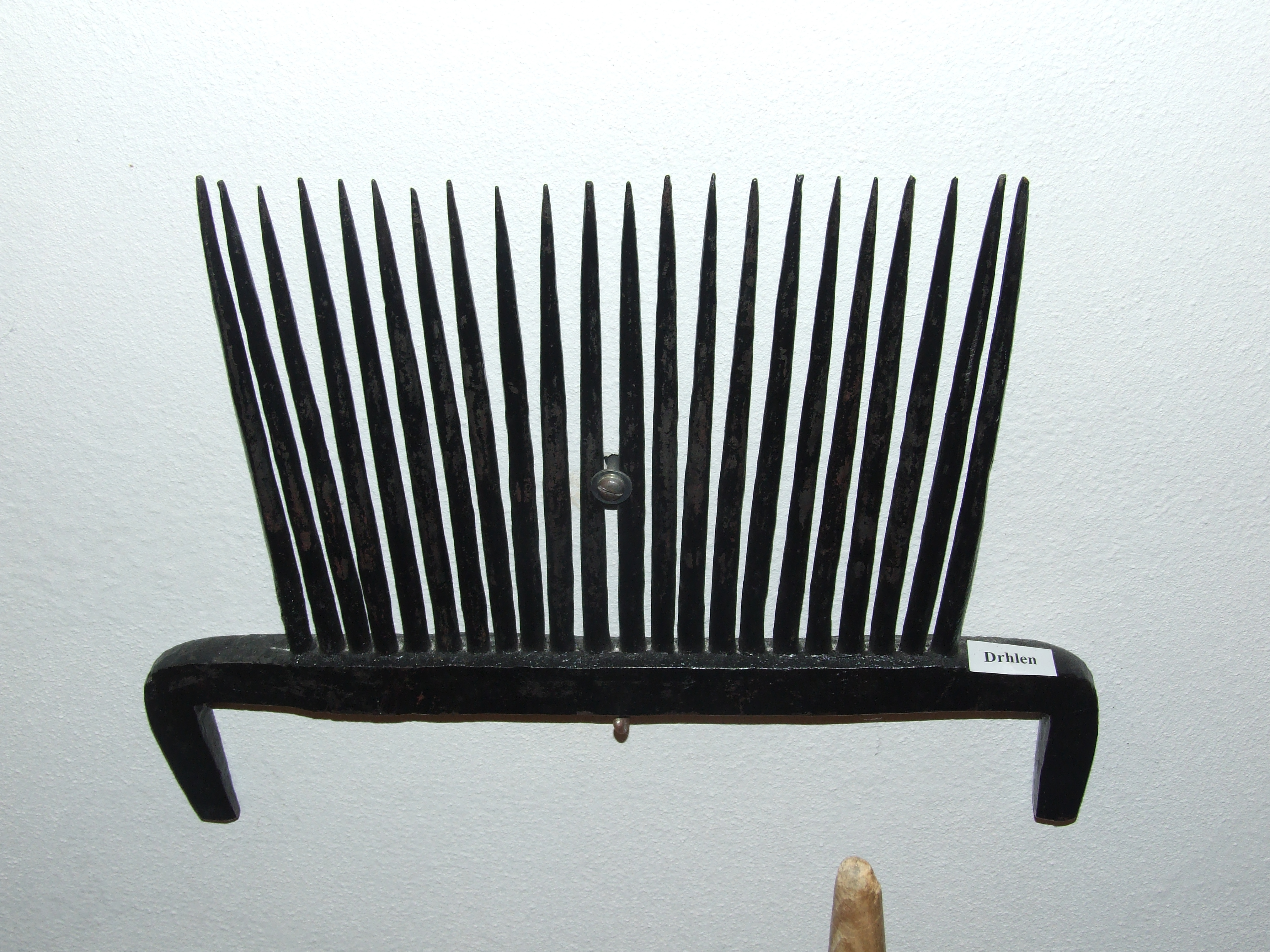 Hackle - a tool for threshing flax; Municipal museum Nové Město nad Metují